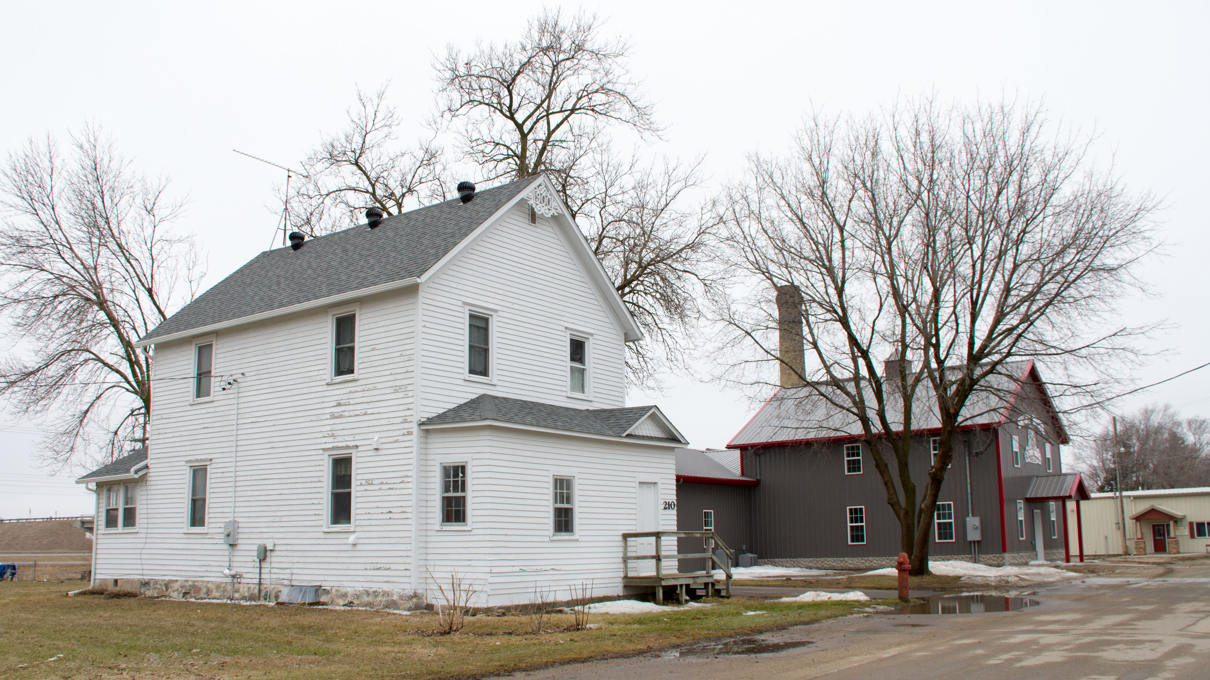 What remains of the Freeport Roller Mill and Miller's House in Freeport, Minnesota, USA. The house remains standing, but the original mill (also known as the Swany White Mill) burned down on December 27, 2011 and all that remains is the stone chimney in the background; the gray building in between is not a part of the NRHP listing.